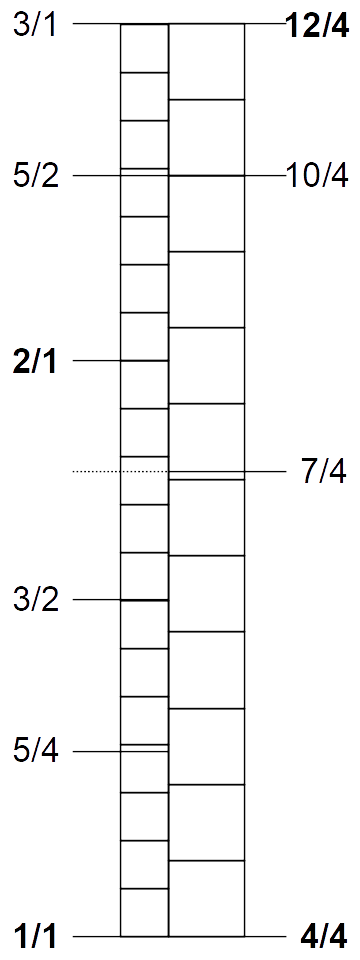 12 tone equal temperament intervals (left) compared with 12 tone equal temperament tritave based A12 tuning (right).